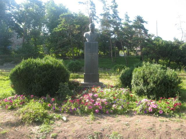 Monument to academician Artavazd Avagyan in Norashen village of Tavush province of Armenia